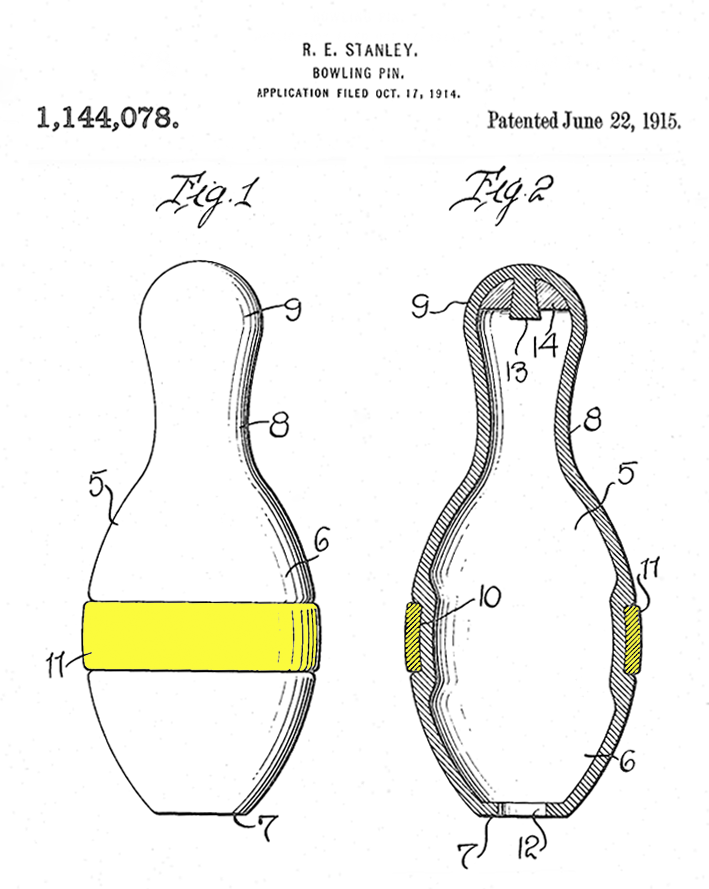 Drawings on cover of U.S. patent 1,144,078, (duckpin) "Bowling Pin" in which "a band of rubber or other resilient material 11" is placed "in an annular peripheral groove or channel 10". Patent may be related to "rubber band duckpins". See Duckpin bowling Yellow shading was added to version 2 to emphasize the "band of rubber or other resilient material 11"